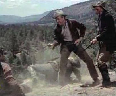 Cropped screenshot of the film The Naked Spur